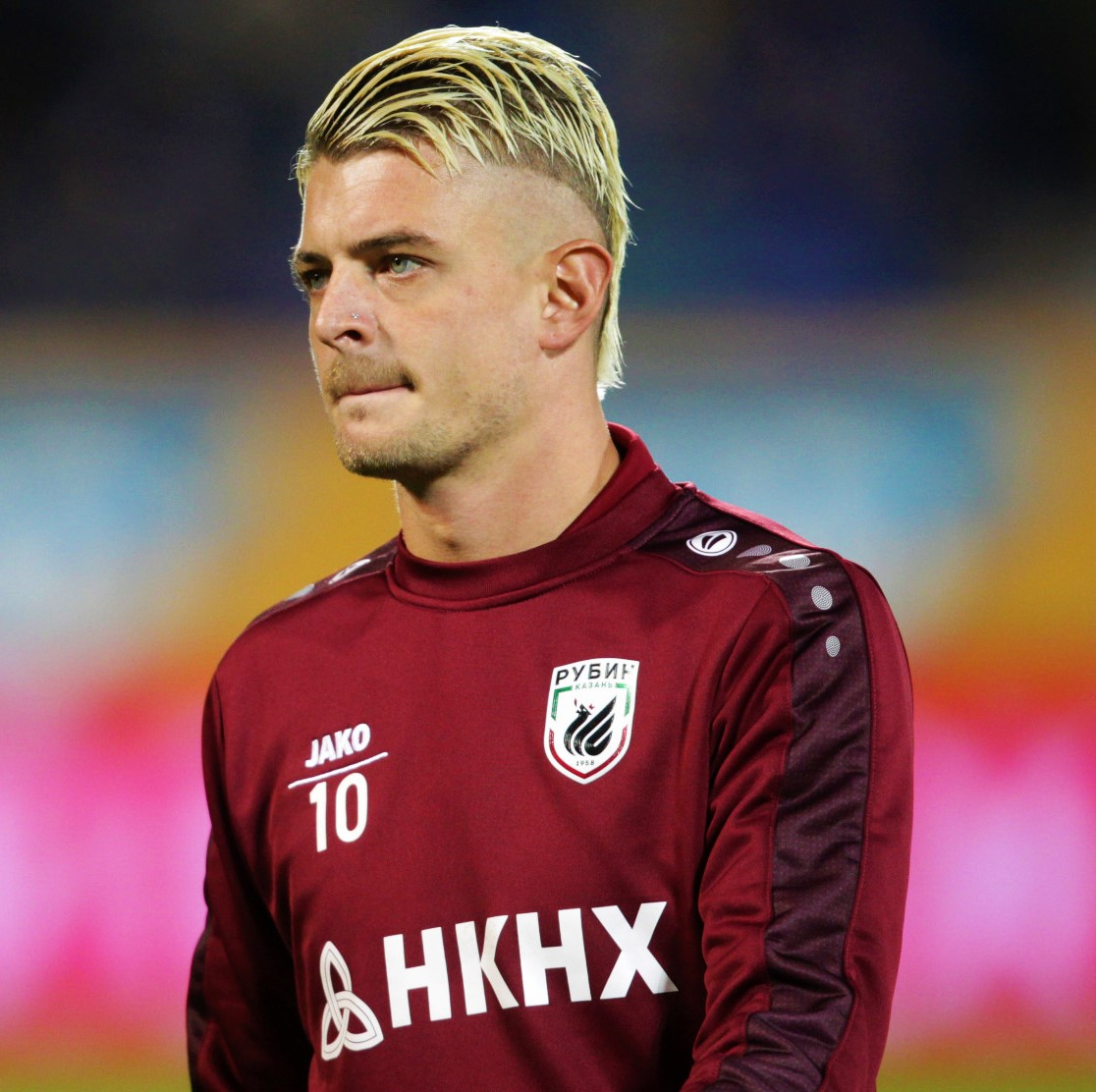 Maxime Lestienne